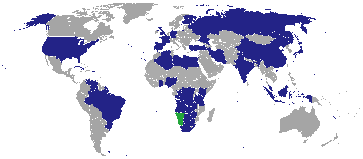 Map of diplomatic missions in Namibia; dark blue Embassy/High Commission, light blue Consulates